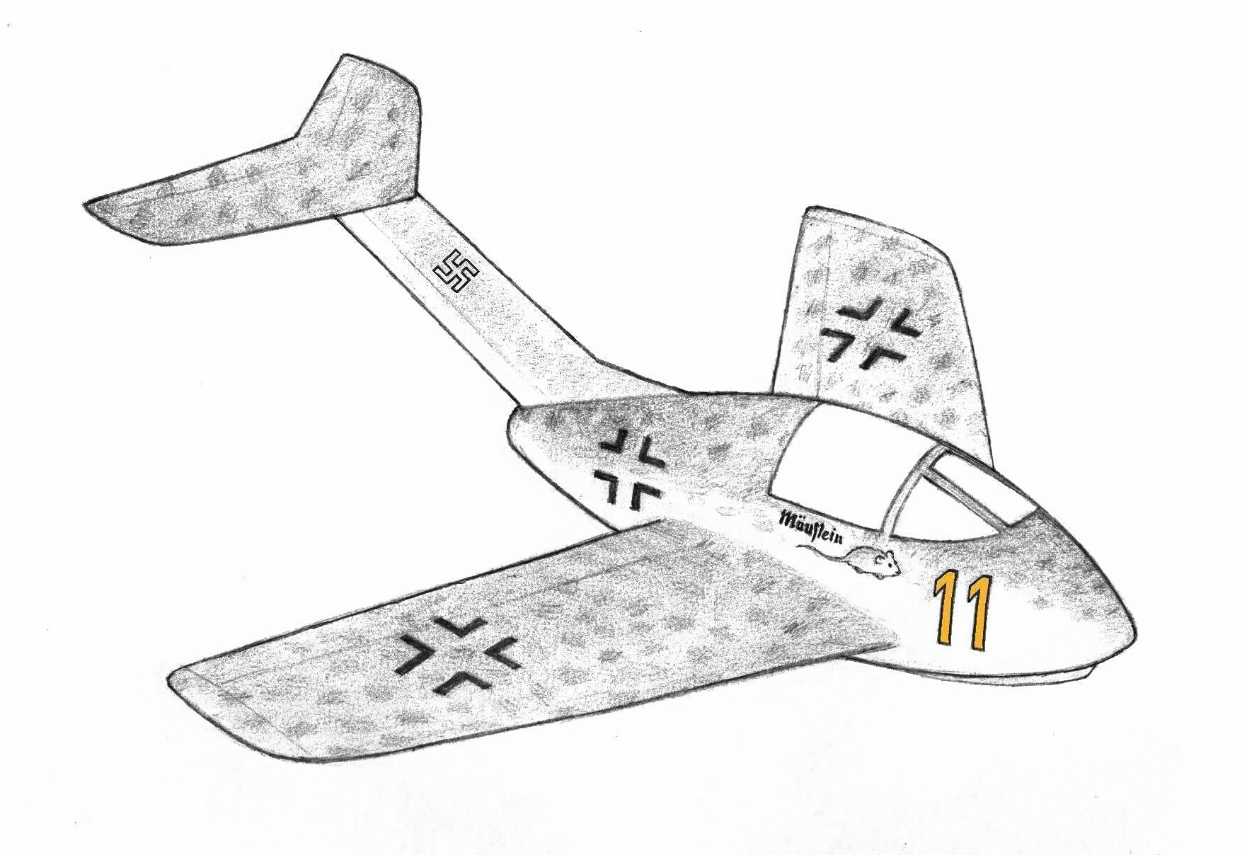 Pencil drawing of the Focke-Wulf Volksjäger 2, a 1945 Luftwaffe interceptor project